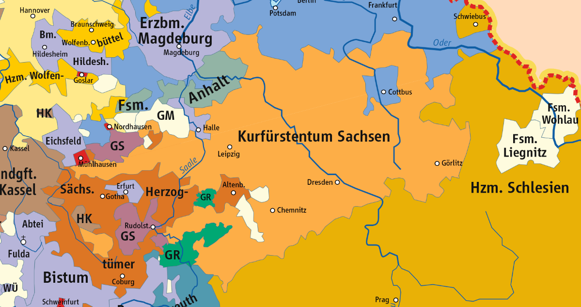 A close up of Electoral Saxony.